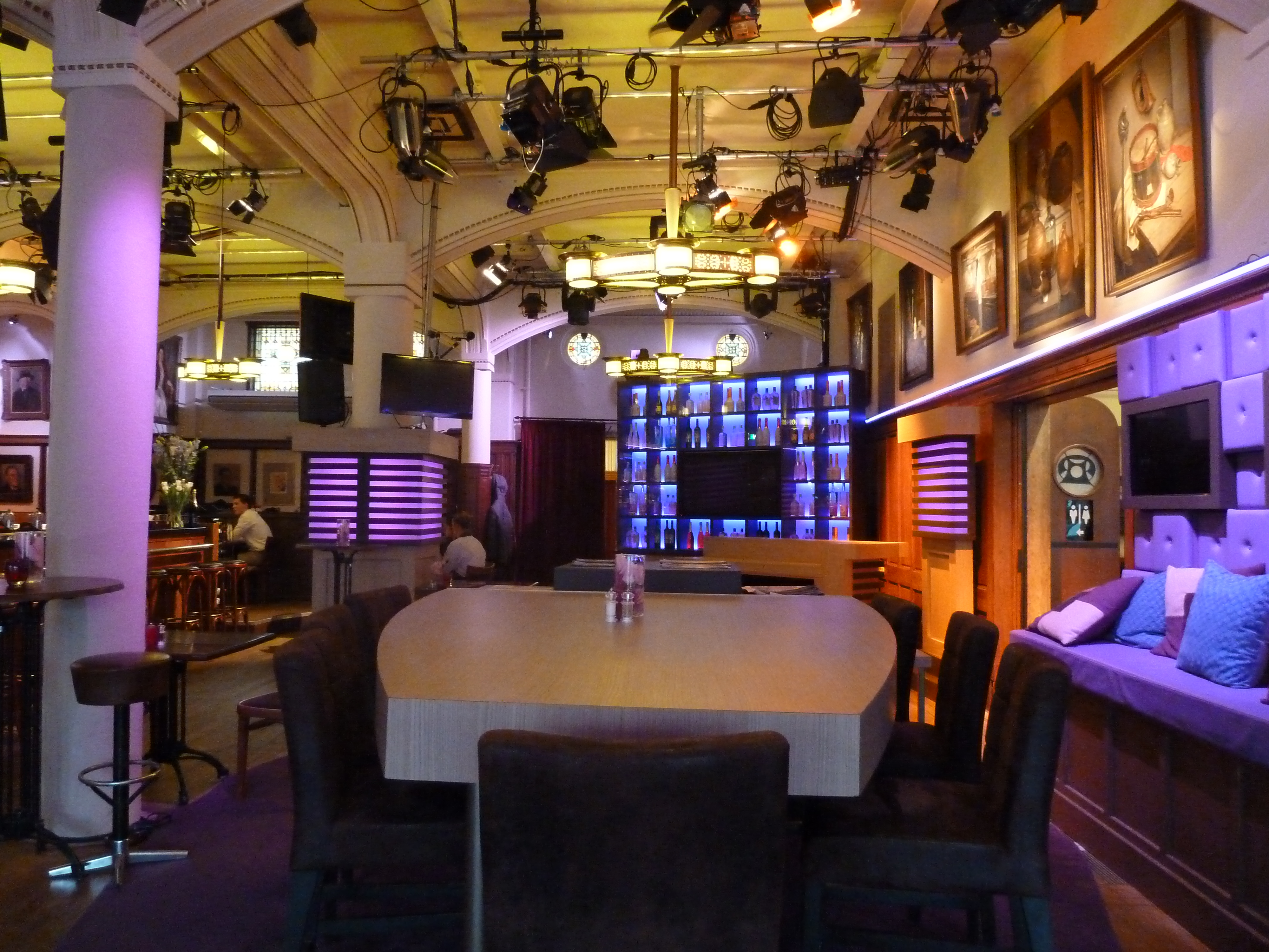 RTL Late Night, Dutch talkshow